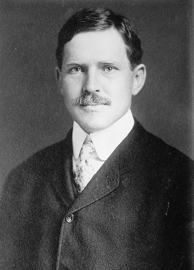 Picture of James Rudolph Garfield.